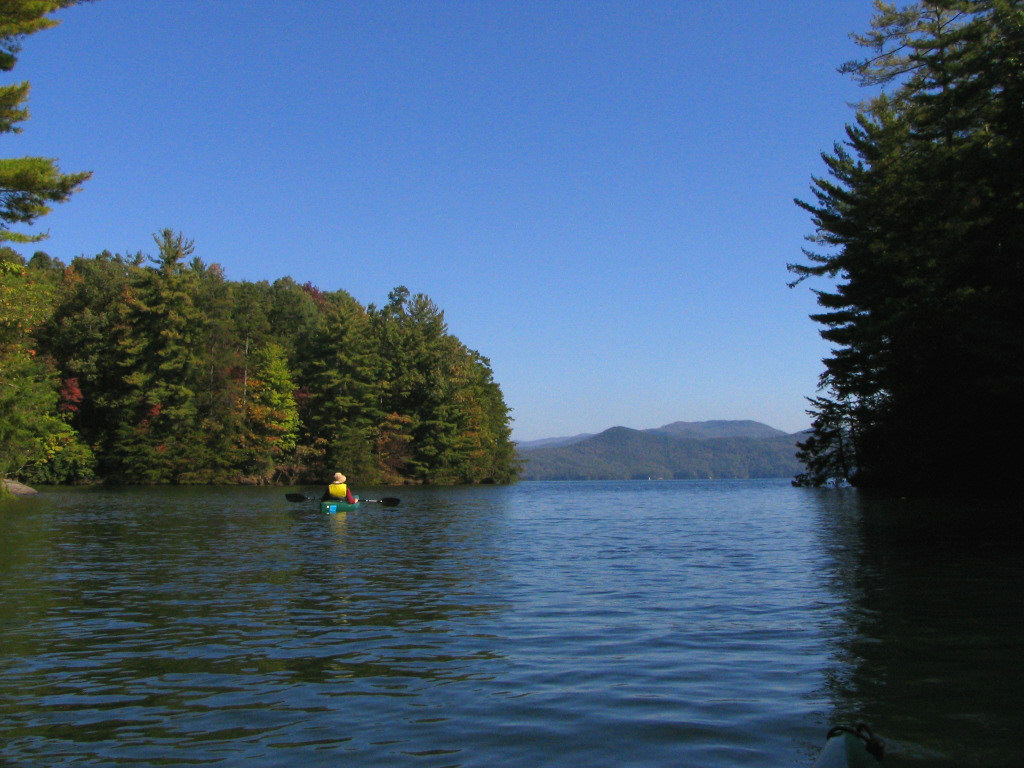 Devil's Fork State Park, South Carolina